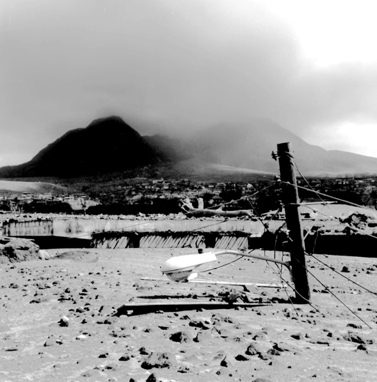 Ash piled streetlamp high on the Streets of Plymouth (1999). Photo by Gary Mark Smith.